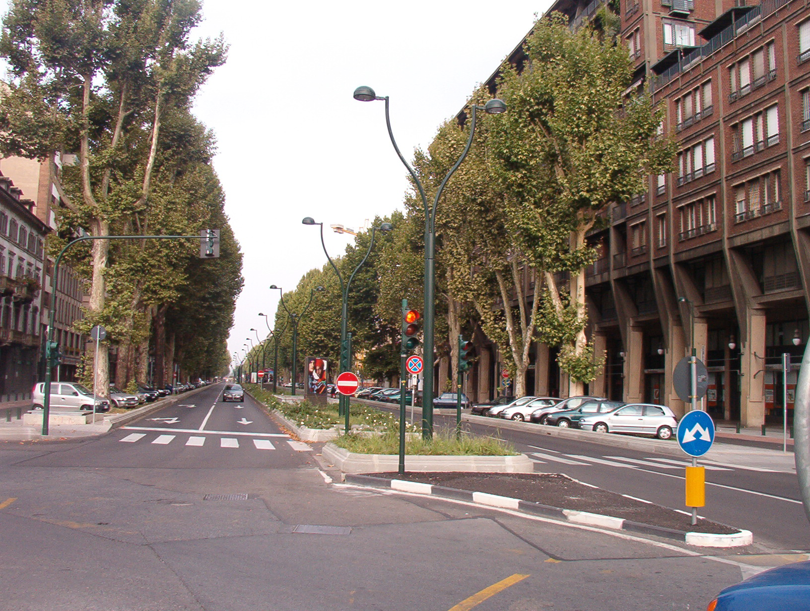 Corso Francia - Turin - Piedmont - Italy